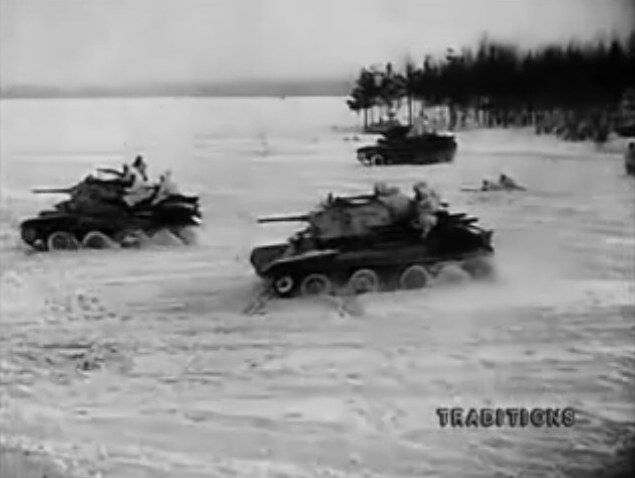 Still from Moscow Strikes Back, Soviet documentary of the Battle of Moscow. Directed by Ilya Kopalin. 1 of 4 films to win the 1943 Academy Award for Best Documentary.